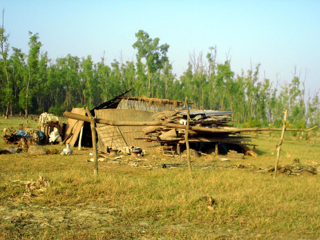 Cyclone Aila washed away the southern-most island of Bangladesh and people became refugee. This picture showed how the Cyclone mashed people's house there.